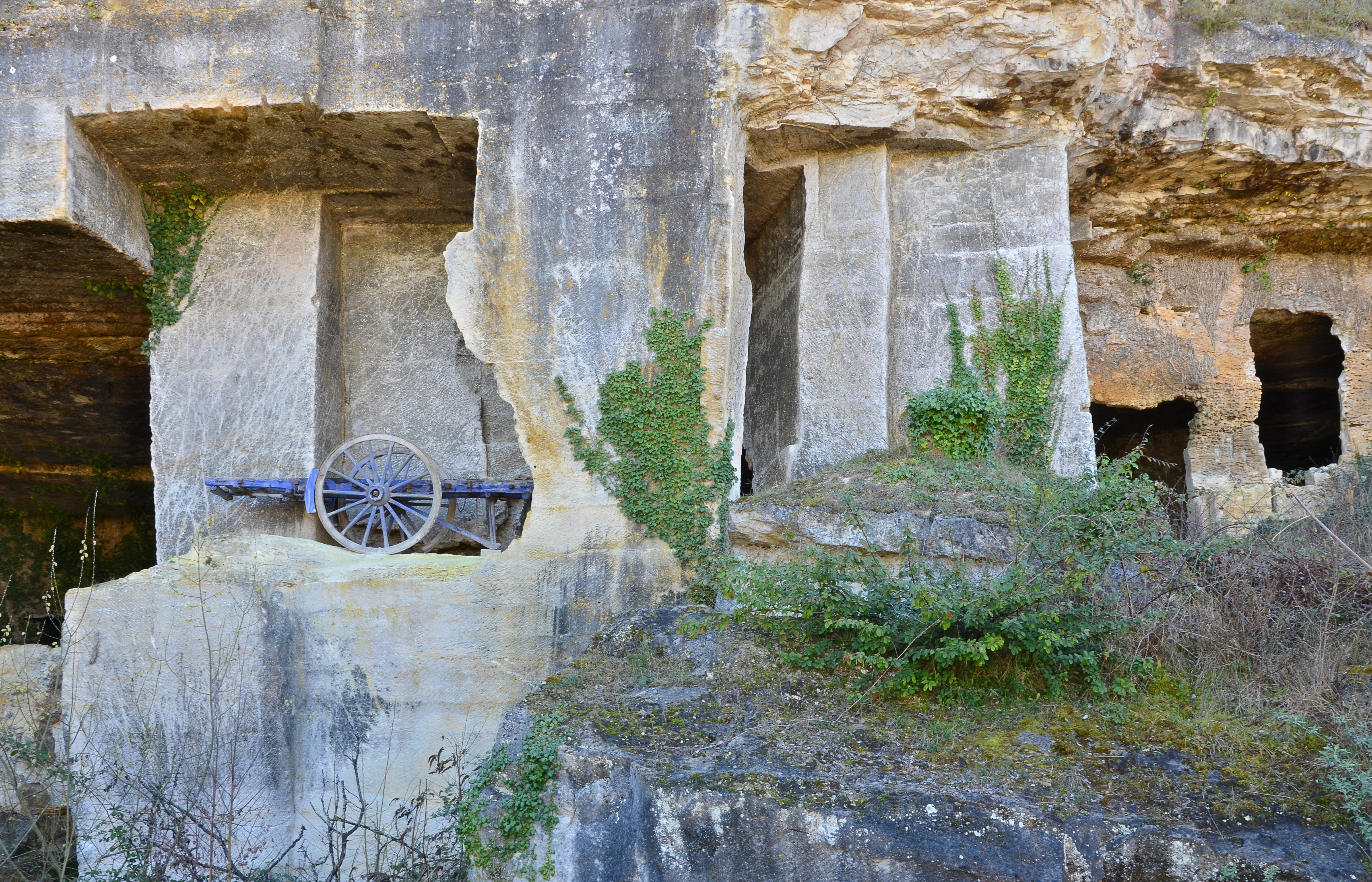 Former stone-pit with a cart used to carry blocks, Saint-Même-les-Carrières, Charente, France